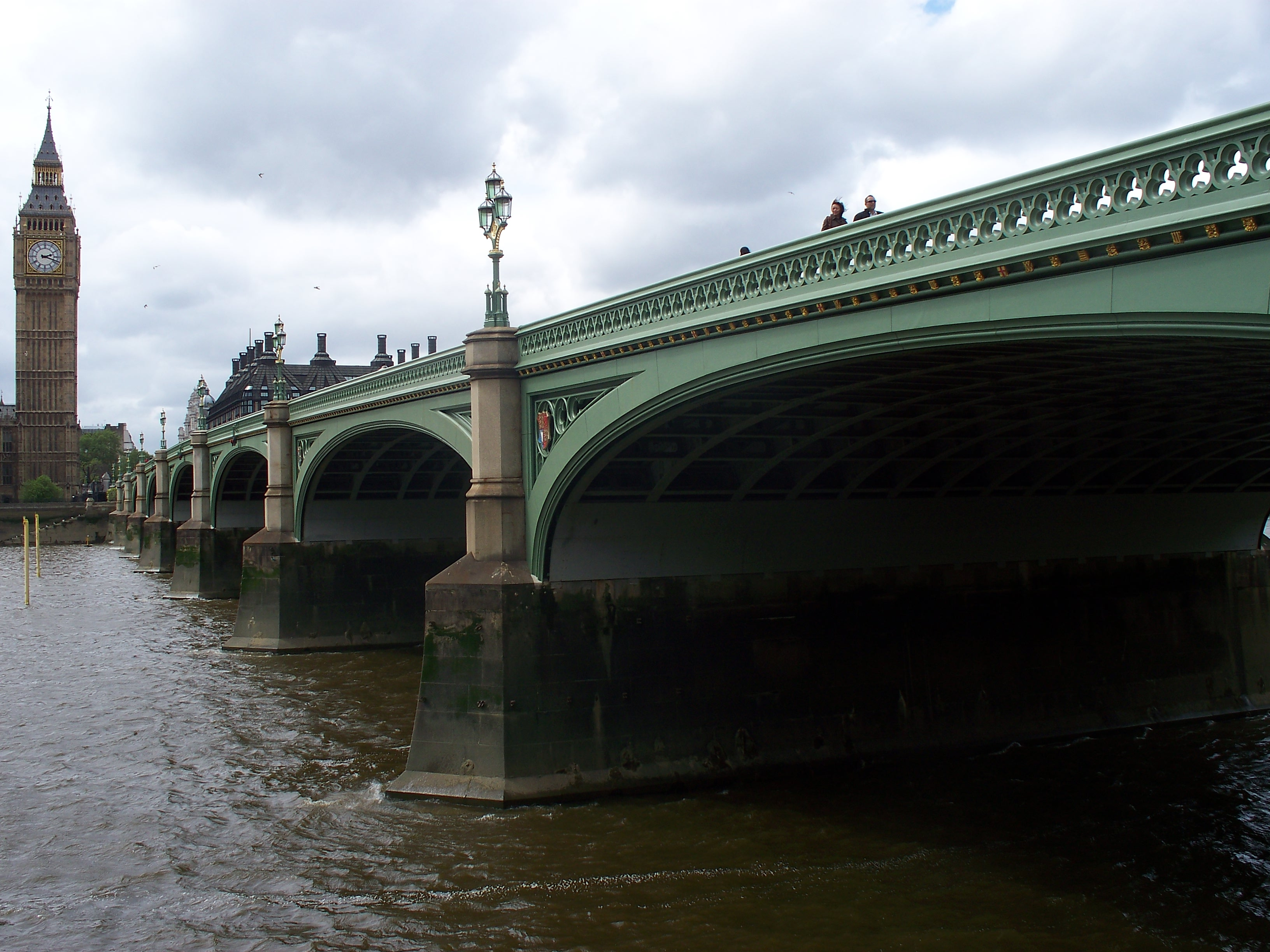 Westminster Bridge, London. Photograph taken in a public location in the UK of a building on permanent public display, and exempt from copyright under Section 62 of the Copyright Designs & Patents Act 1988 ("it is not an infringement of copyright to film, photograph, broadcast or make a graphic image of a building, sculpture, models for buildings or work of artistic craftsmanship if that work is permanently situated in a public place or in premises open to the public")